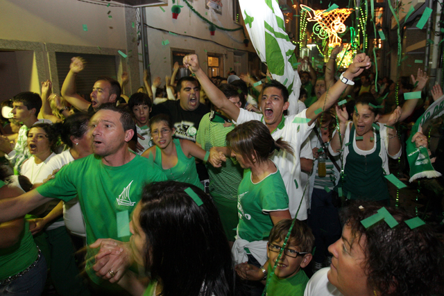 Bairro Sul supporters, Saint Peter Festival, Póvoa de Varzim, Portugal